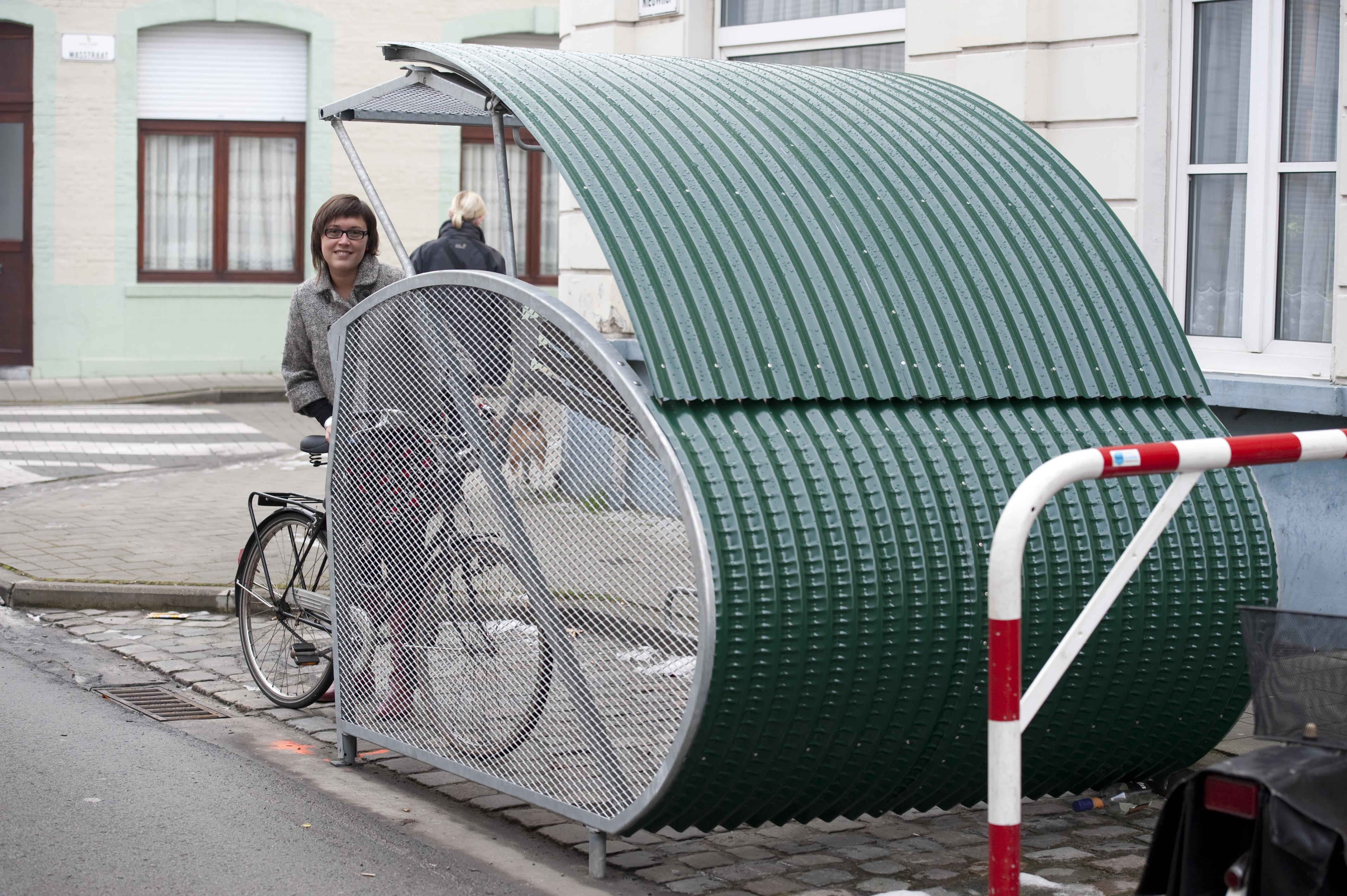 bicycle shelter, bicycle locker, cycle shelter, cycle locker